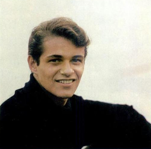 Trade ad for Eddie Rambeau's single "My Name Is Mud".To better adapt it to his respective Wikipedia article, the ad was cropped and cleaned in a graphics editing program. The original can be viewed at the source below.